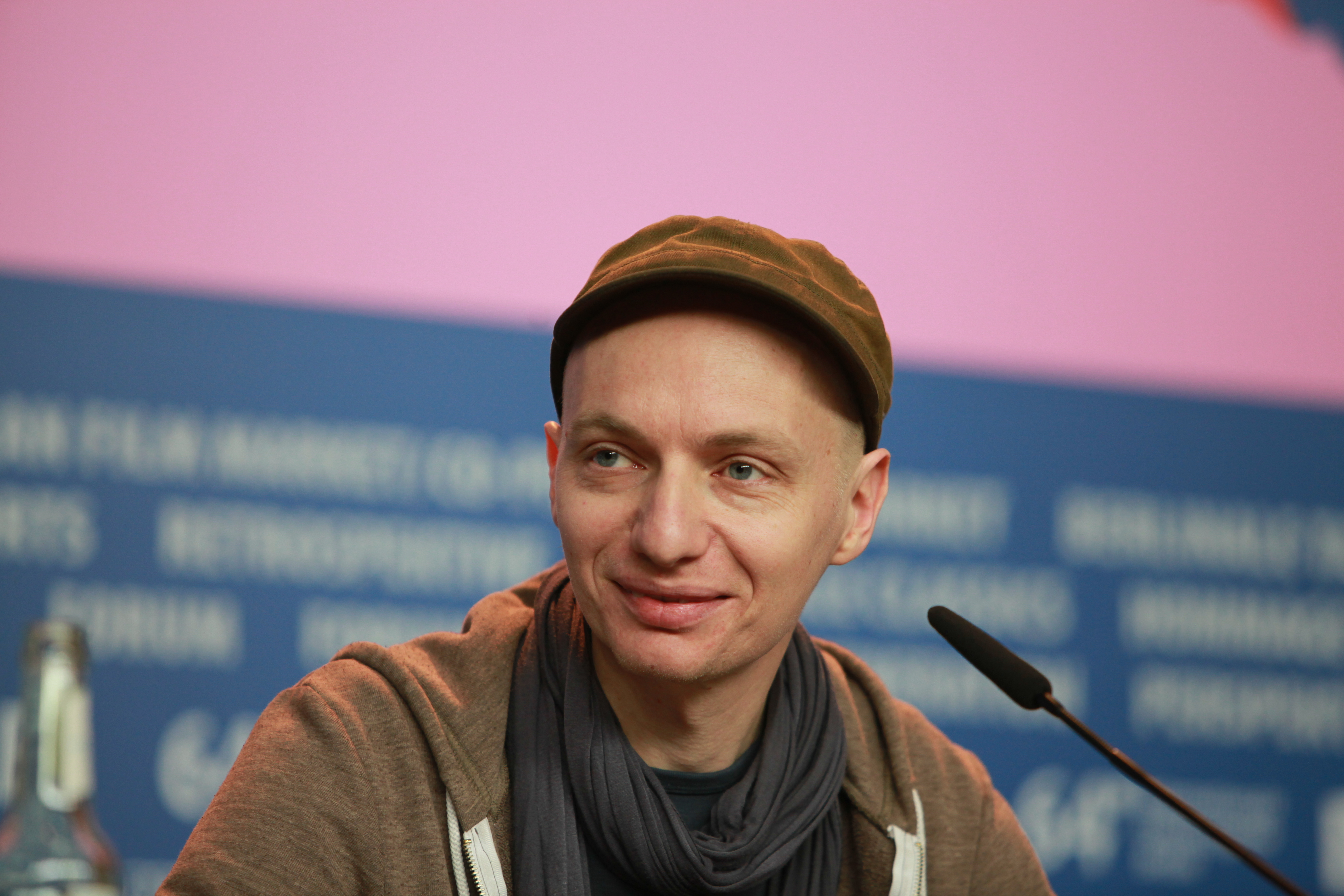 German film director Dietrich Brüggemann at the 64th Berlinale 2014